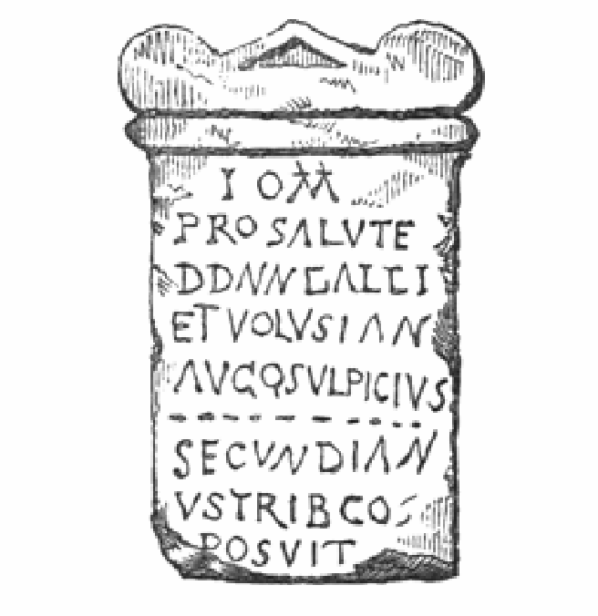 Roman Dedicatory Sulpicius Secundianus to Iupiter, Altar from 251-253. A little south-east of Bowness fort. Then built in over a barn-door at Bowness House Farm, facing north on the main east-west street through Bowness-on-Solway, where it now (1941) is.